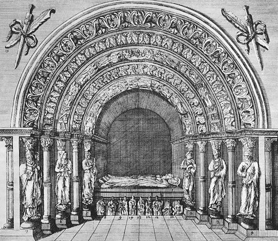 TOMB of OGIER the DANE